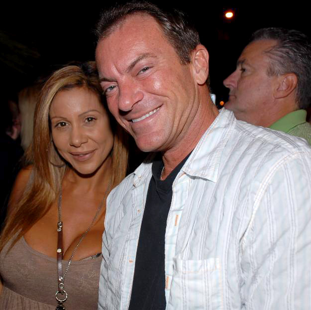 Demi Delia, Randy Spears at Wicked Pictures party, the House of Blues on Sunset Blvd, September 19, 2007.